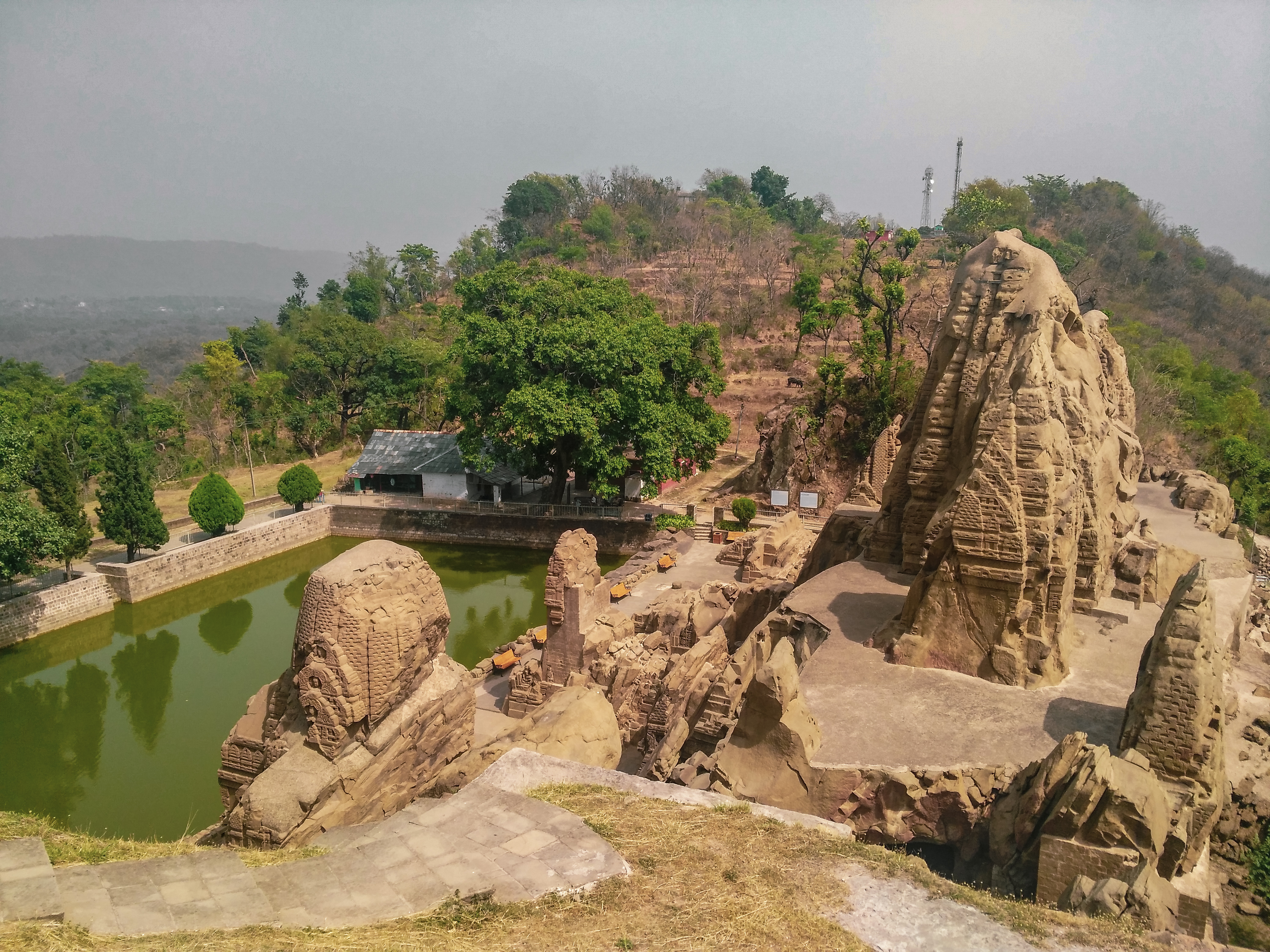 The Masrur Temples, also referred to as Masroor Temples or Rock-cut Temples at Masrur, is an early 8th-century complex of rock-cut Hindu temples in the Kangra Valley of Beas River in Himachal Pradesh, India.They are a version of North Indian Nagara architecture style, dedicated to Shiva, Vishnu, Devi and Saura traditions of Hinduism. Architecture:🏯 The temples were carved out of monolithic rock with a shikhara, and provided with a sacred pool of water as recommended by Hindu texts on temple architecture. The temple has three entrances on its northeast, southeast and northwest side, two of which are incomplete. Evidence suggests that a fourth entrance was planned and started but left mostly incomplete, something acknowledged by the early 20th-century colonial era archaeology teams but ignored leading to misidentification and erroneous reports. The entire complex is symmetrically laid out on a square grid, where the main temple is surrounded by smaller temples in a mandala pattern. The main sanctum of the temples complex has a square plan, as do other shrines and the mandapa. The temples complex features reliefs of major Vedic and Puranic gods and goddesses, and its friezes narrate legends from the Hindu texts. Statistically, the temples can be dated back to circa 8th century CE. In view of its archeological value, the Archeological Survey of India declared the temple complex in 1913 a protected monument of national importance.